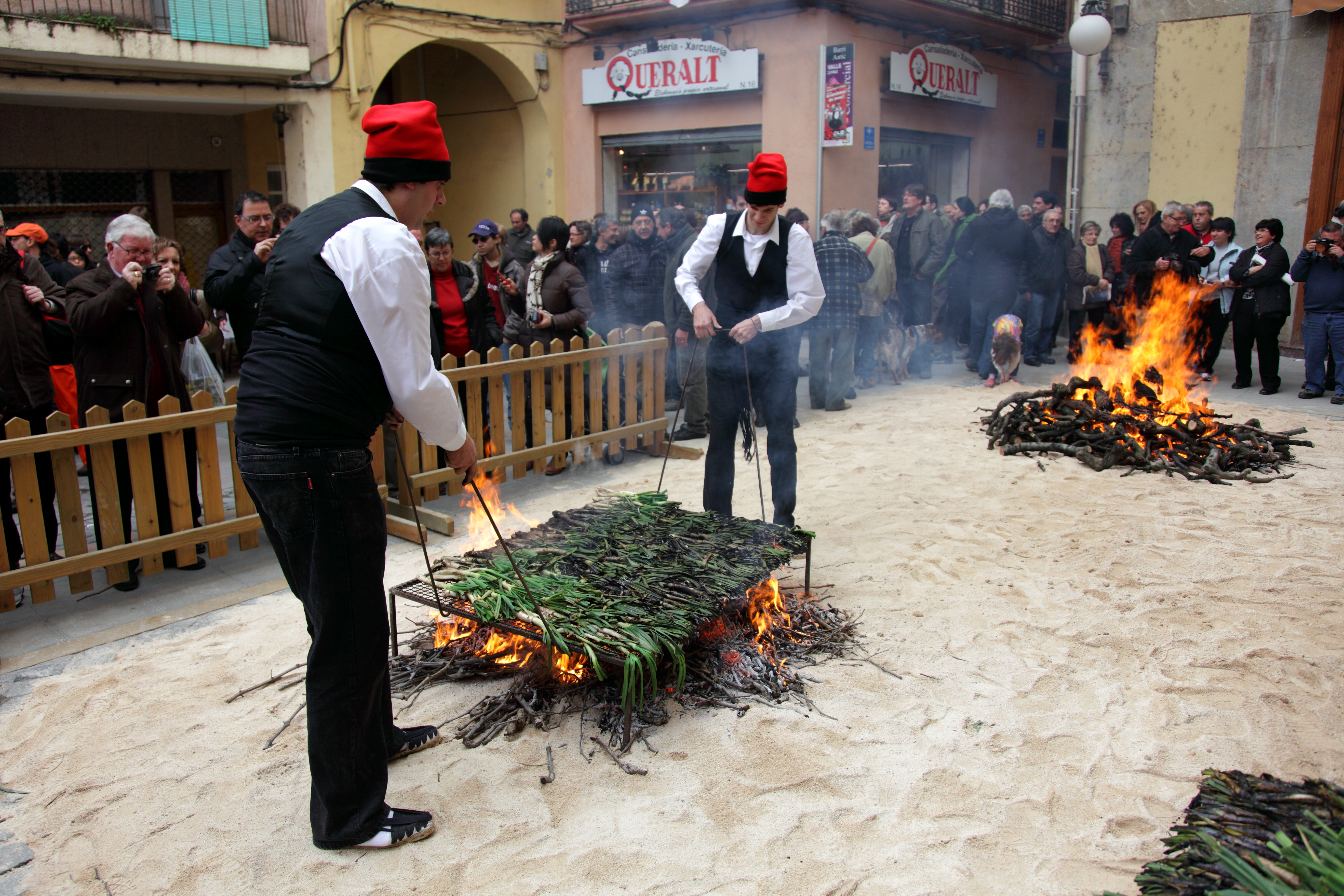 Calçot is a variety of garden onion known as Blanca Gran Tardana from Lleida. The Calçot from Valls (Tarragona, Catalonia) is a registered EU Protected Geographical Indication. The most traditional way of eating calçots is in a calçotada (plural: calçotades), a popular gastronomical event held between the end of winter and March or April, where calçots are consumed massively.Calçots are then barbecued and dipped in salvitxada or romesco sauce, and accompanied by red wine or cava. Pieces of meat and bread slices are roasted in the charcoal after cooking the calçots (